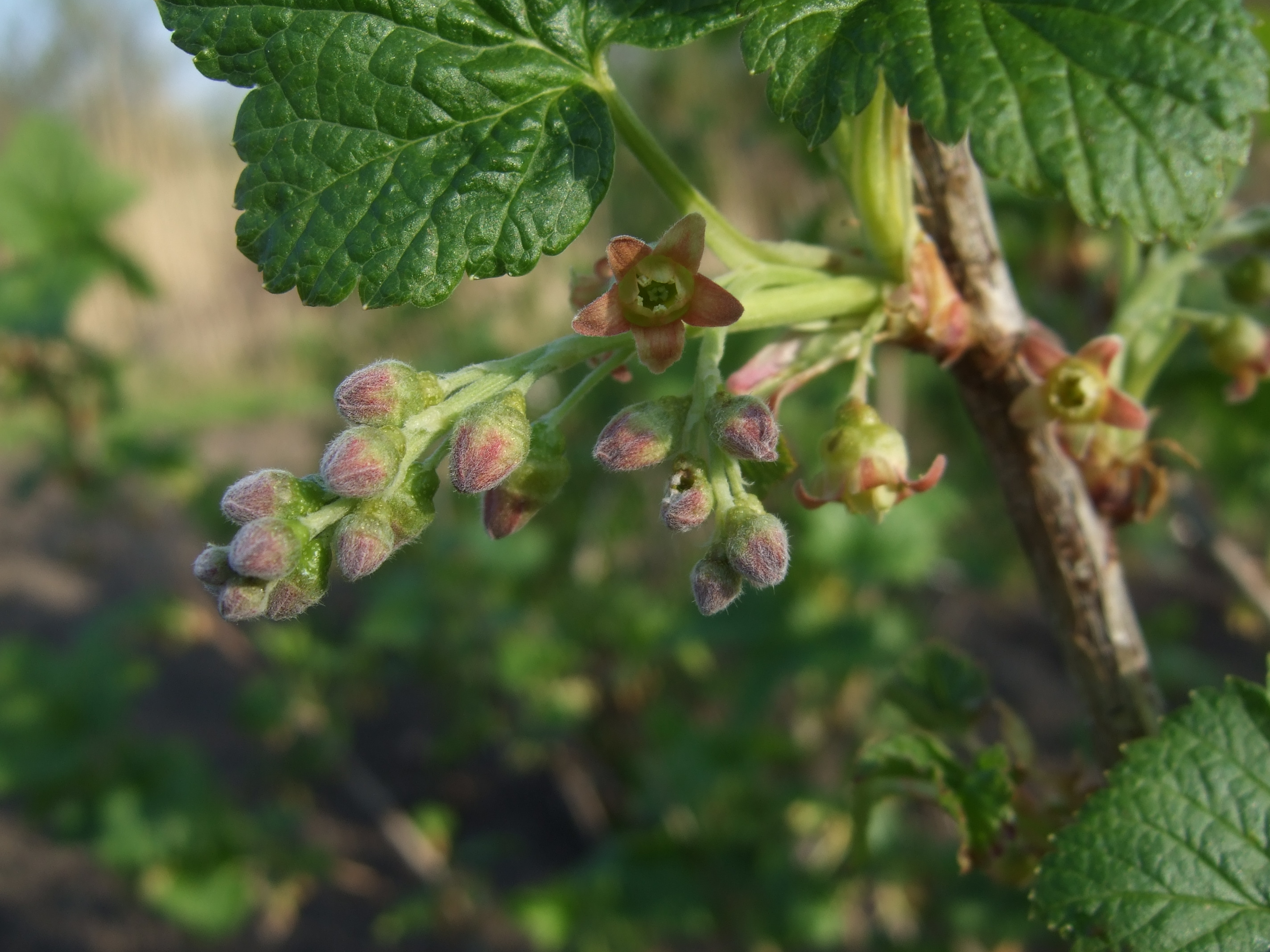 Blackcurrant flowers in Kirchwerder, Hamburg.